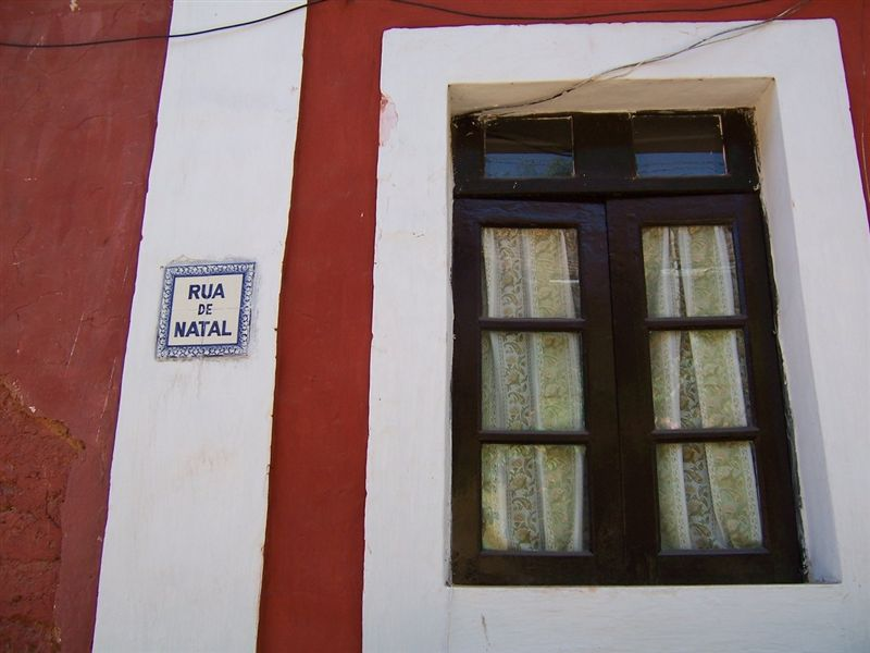 This is one of the lanes in Fontainhas...Rua de Natal - I was thinking Brazil, South Africa..and took the shot.